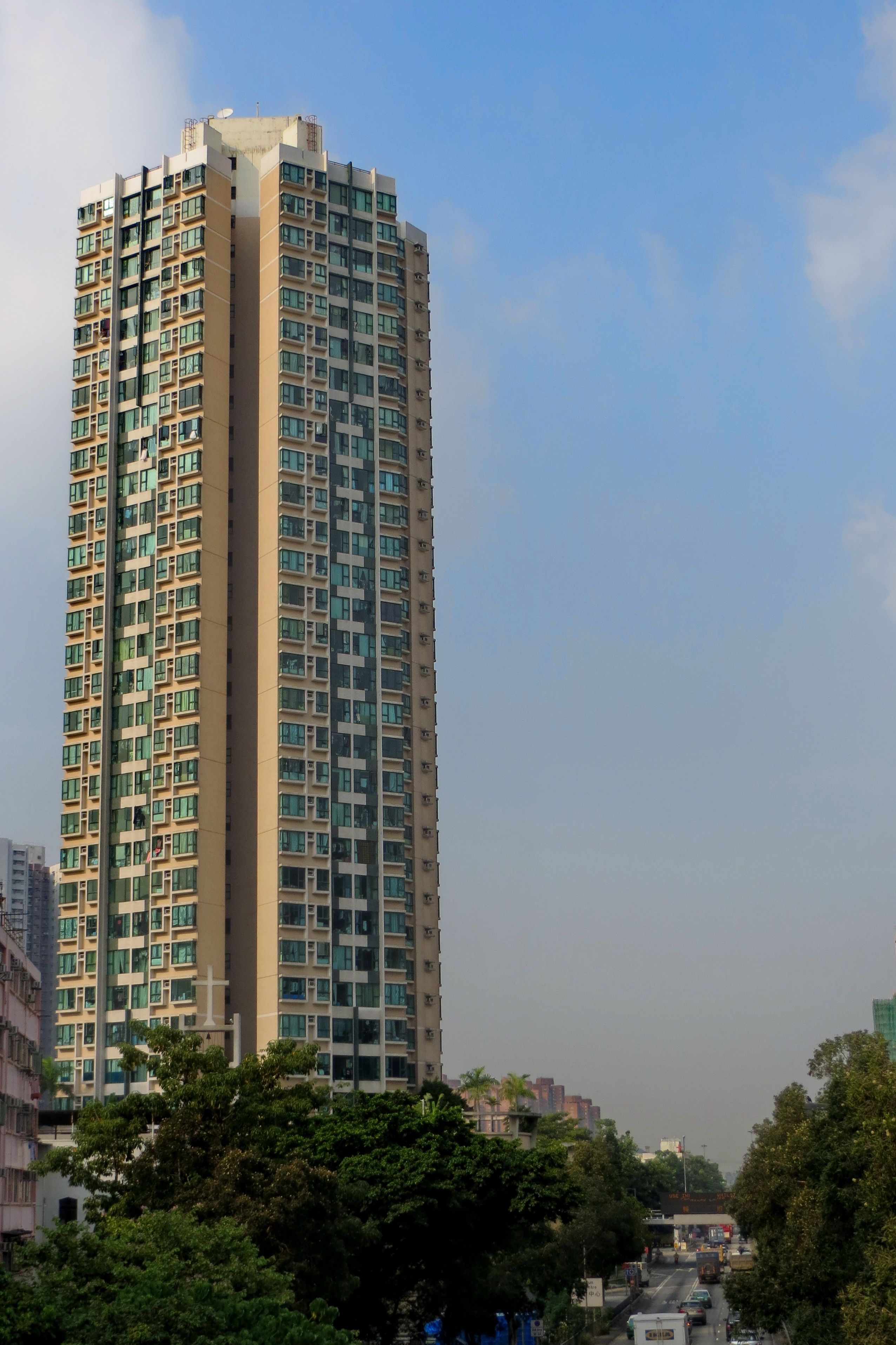 Parkview Court, Tuen Mun, New Territories, Hong Kong.